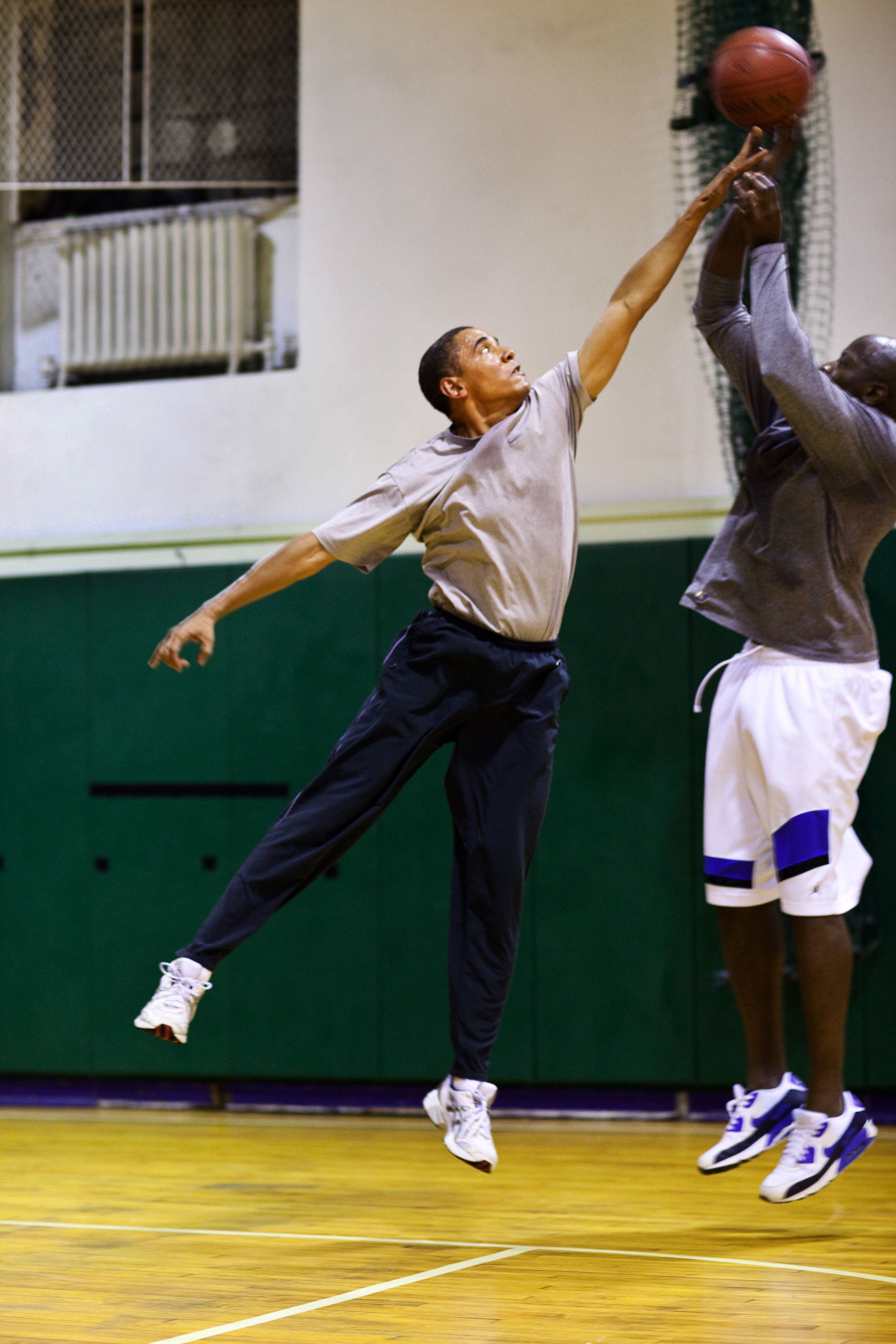 President Barack Obama plays basketball with personal aide Reggie Love at St. Bartholomew's Church in New York, N.Y., where the President was attending the United Nations General Assembly, Sept. 23, 2009.